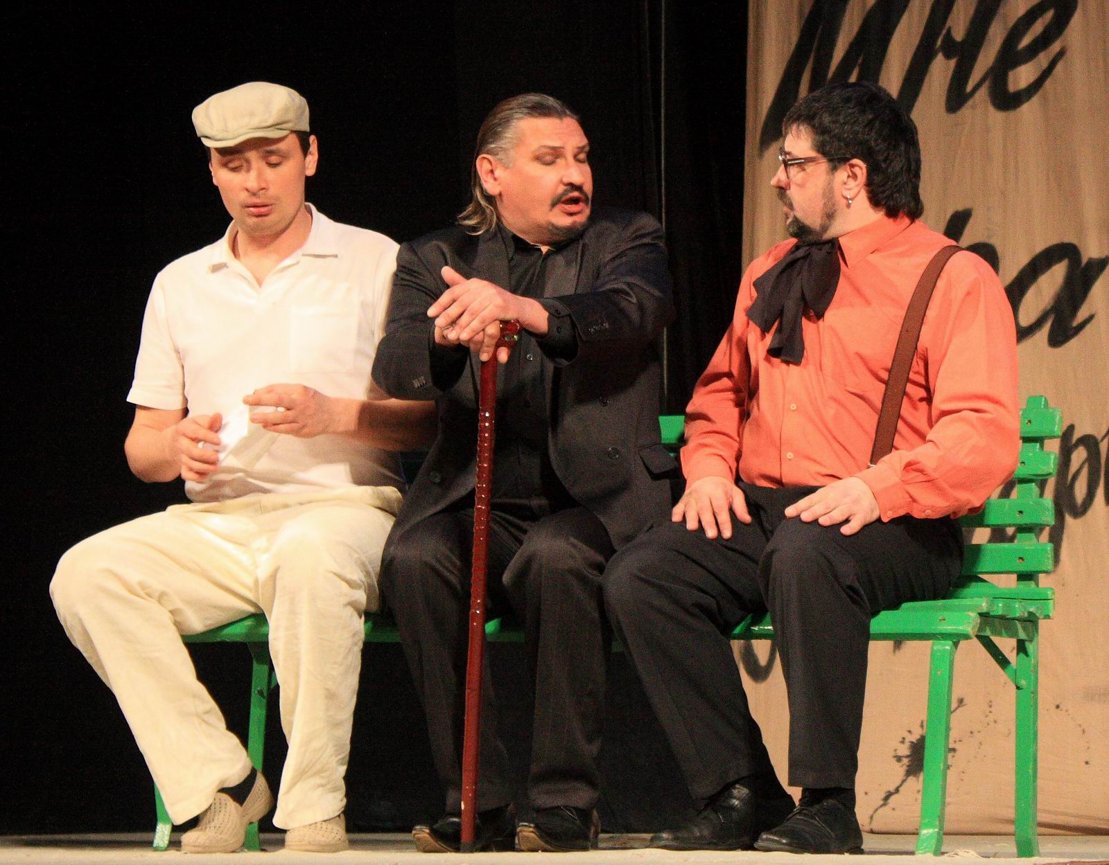 Play (theatre) «The Master and Margarita»